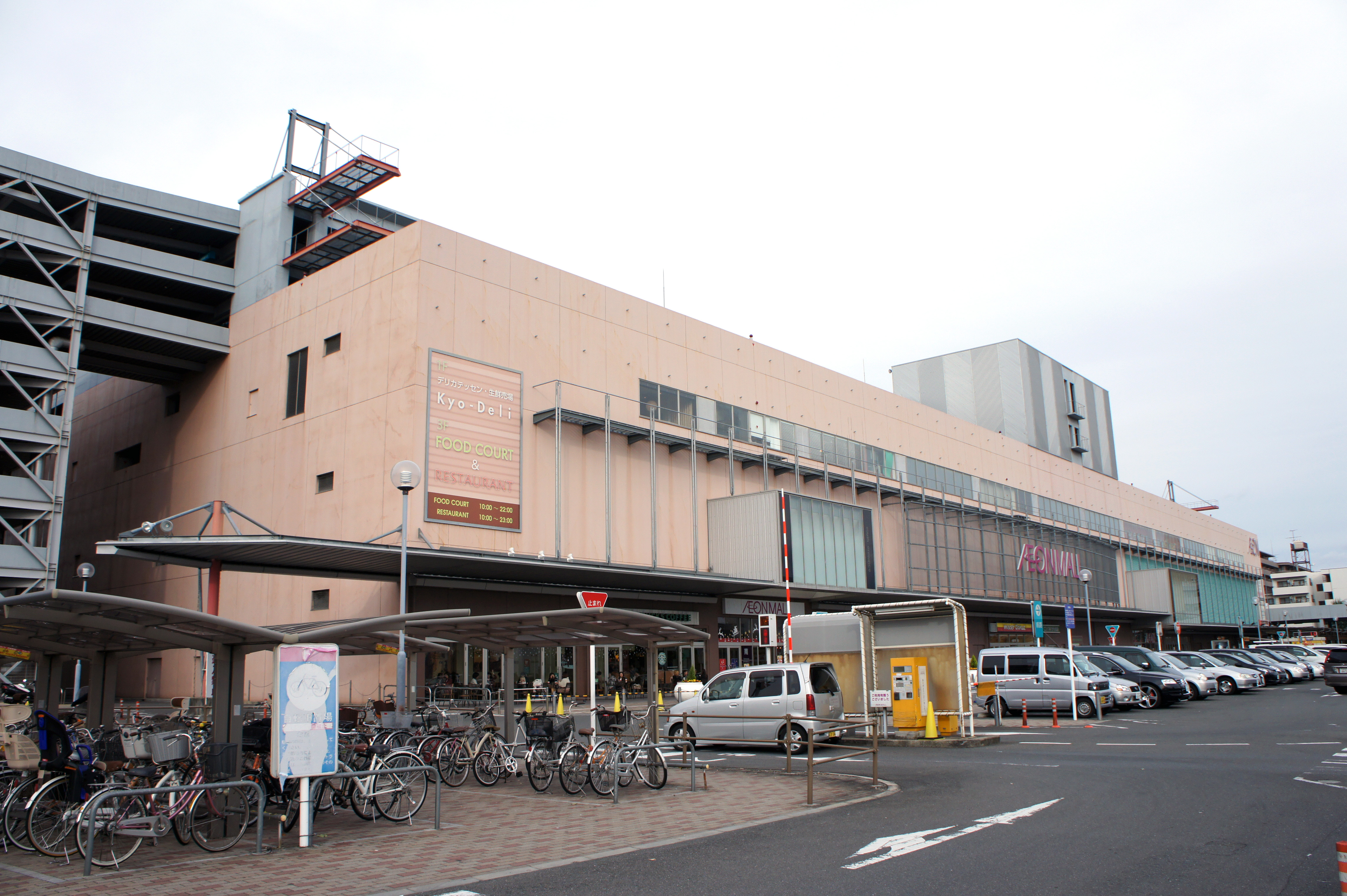 AEON MALL Kyotogyo, 25-1 Oiwakecho Saiin Ukyo-ku Kyoto-City Kyoto Japan.